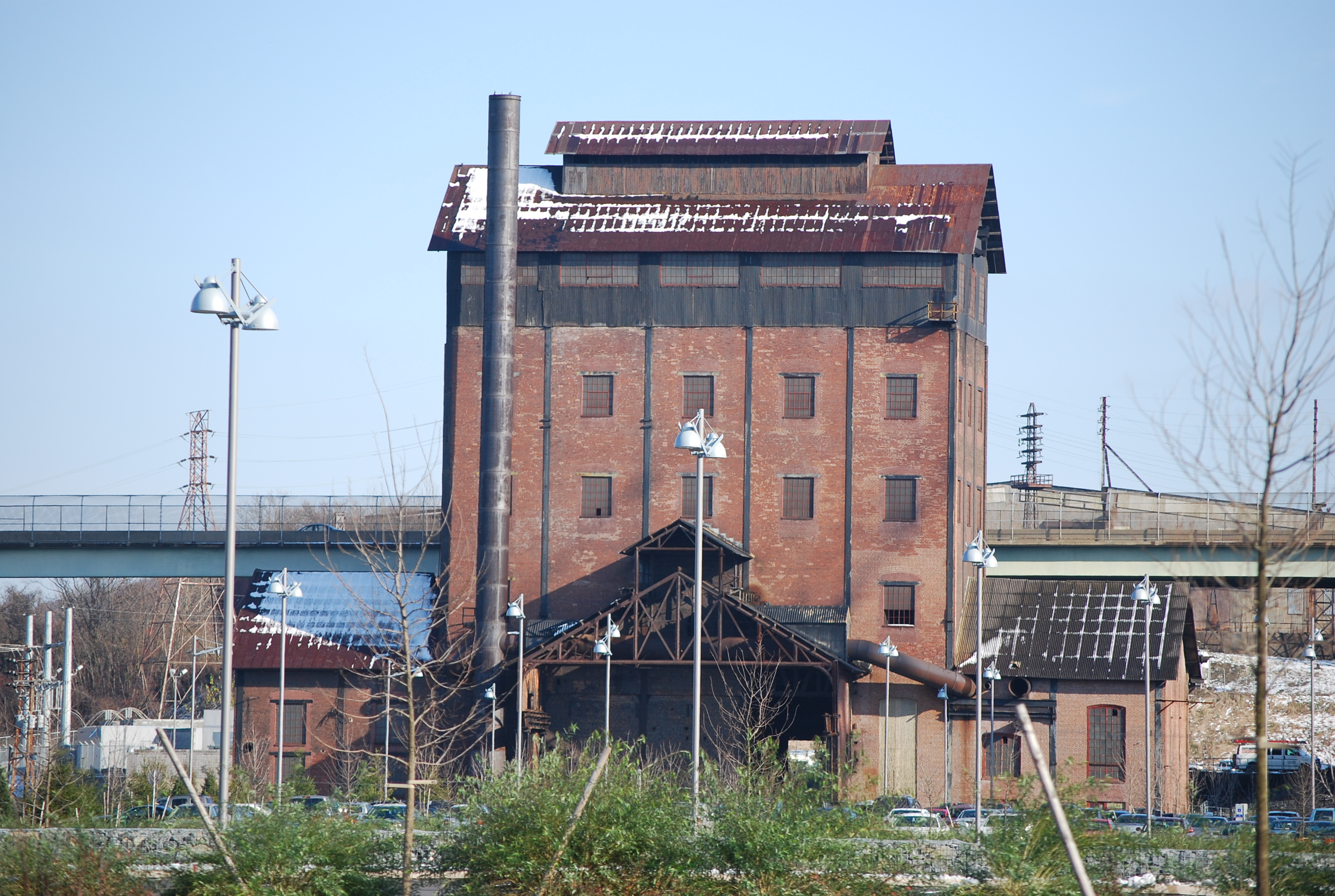 No. 5 High House (also known as the Vertical Treatment Shop), Minsi Trail Bridge in background